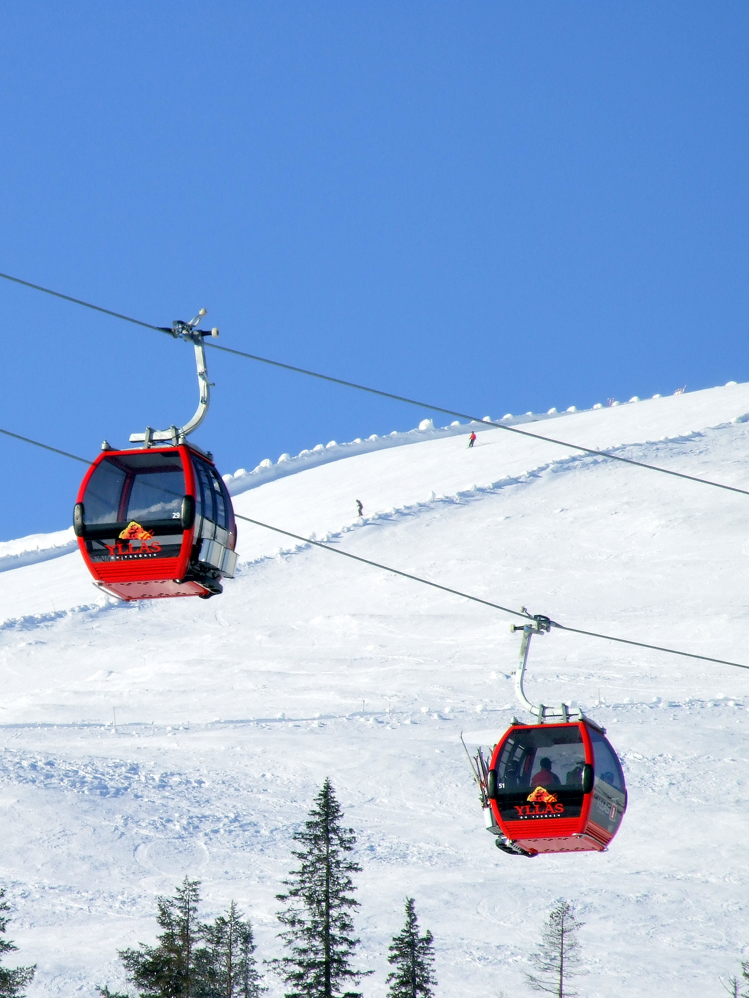 Gondola lifts in Yllästunturi skiresort